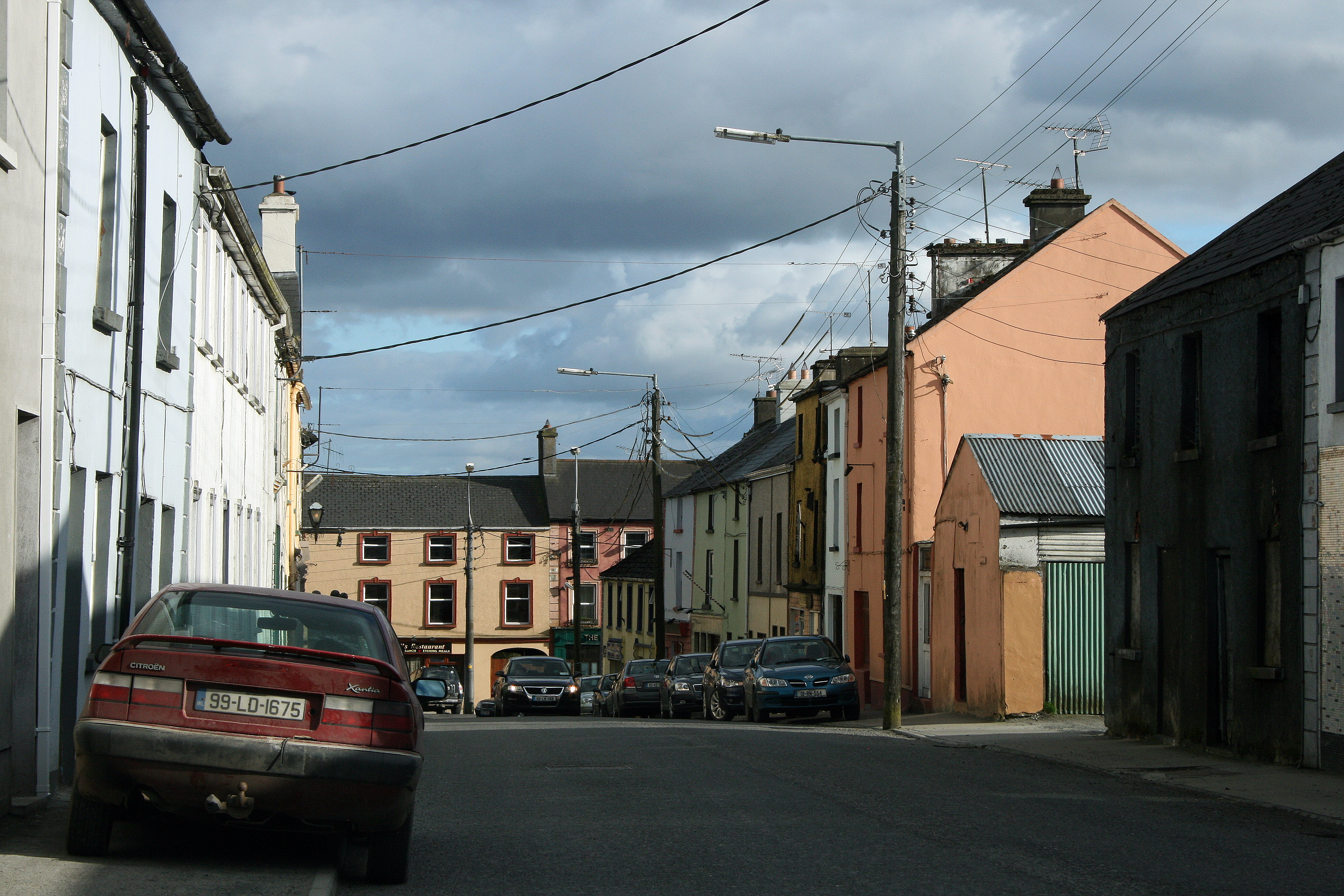 Market Street, Granard, near to Granard, Longford, Ireland. Part of the R194 through the town.